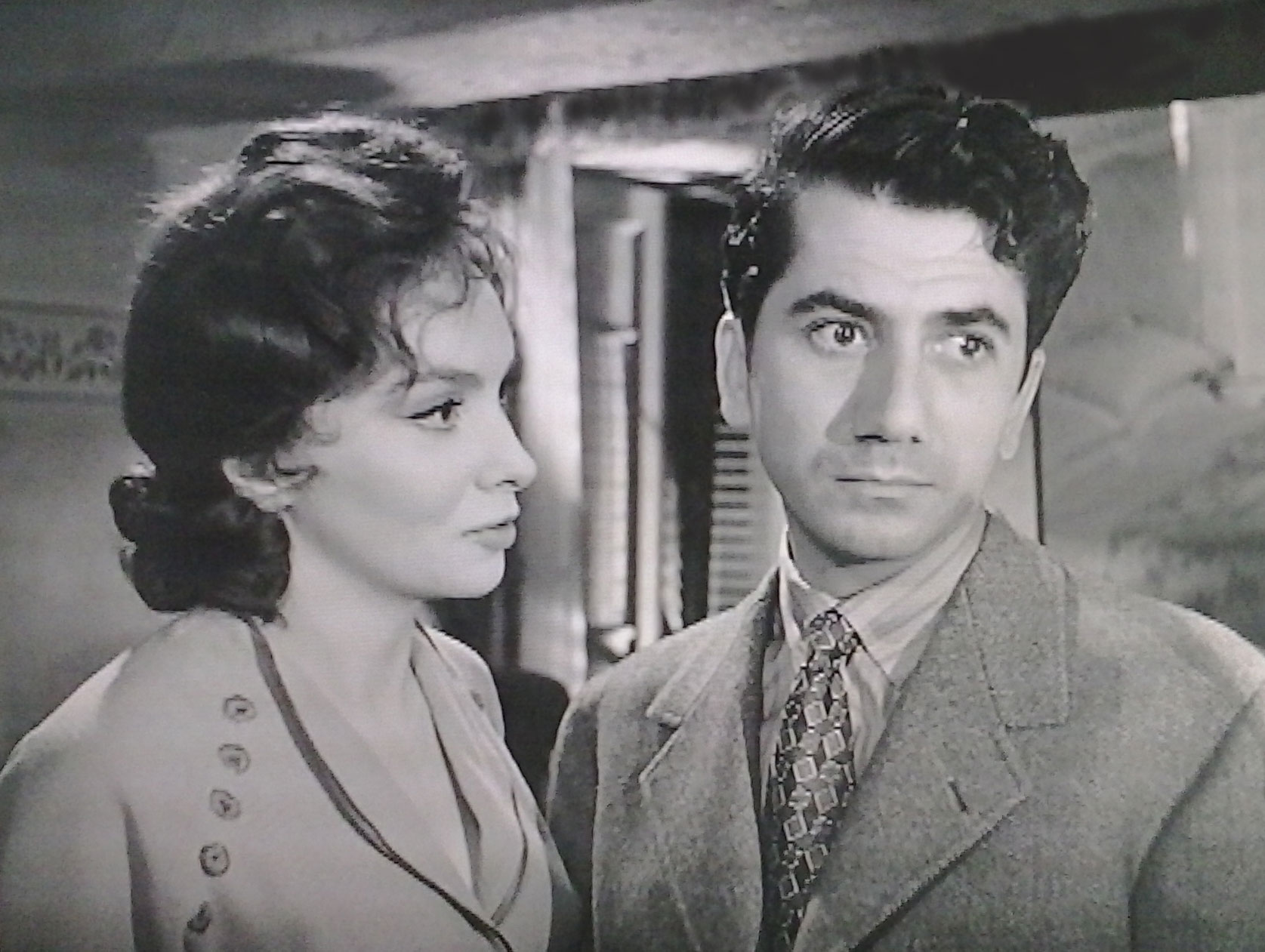 Woman of Rome (1954)